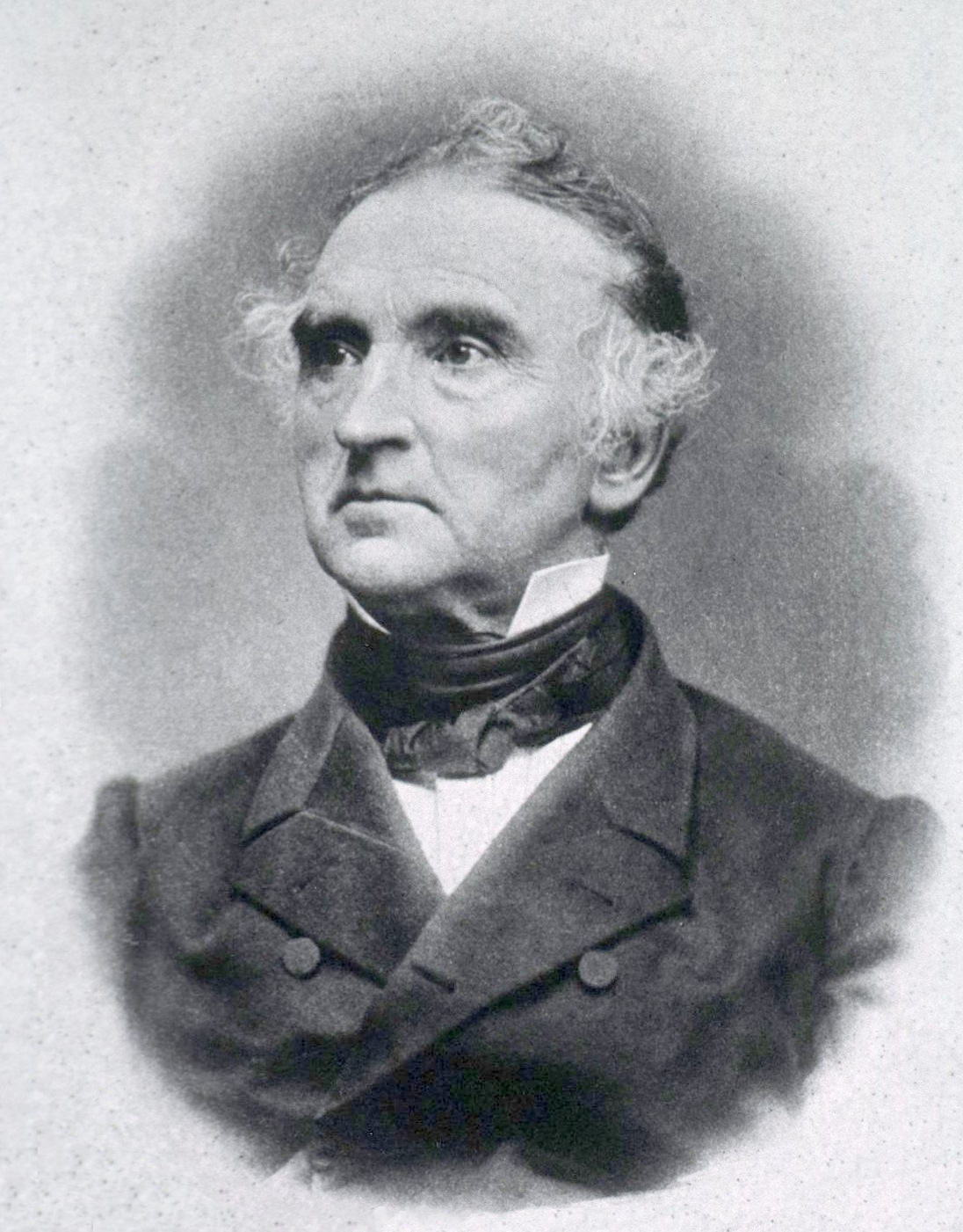 Justus Freiherr von Liebig (12 May 1803 – 18 April 1873)